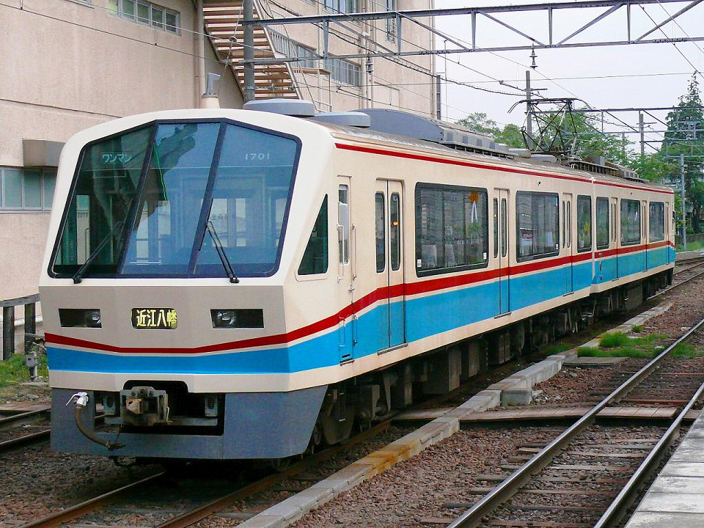 Ohmi Railway Type 700 Train [Akane] (Japan). Taking a picture from Youkaiti Station platform in Ohmi Railway-line.